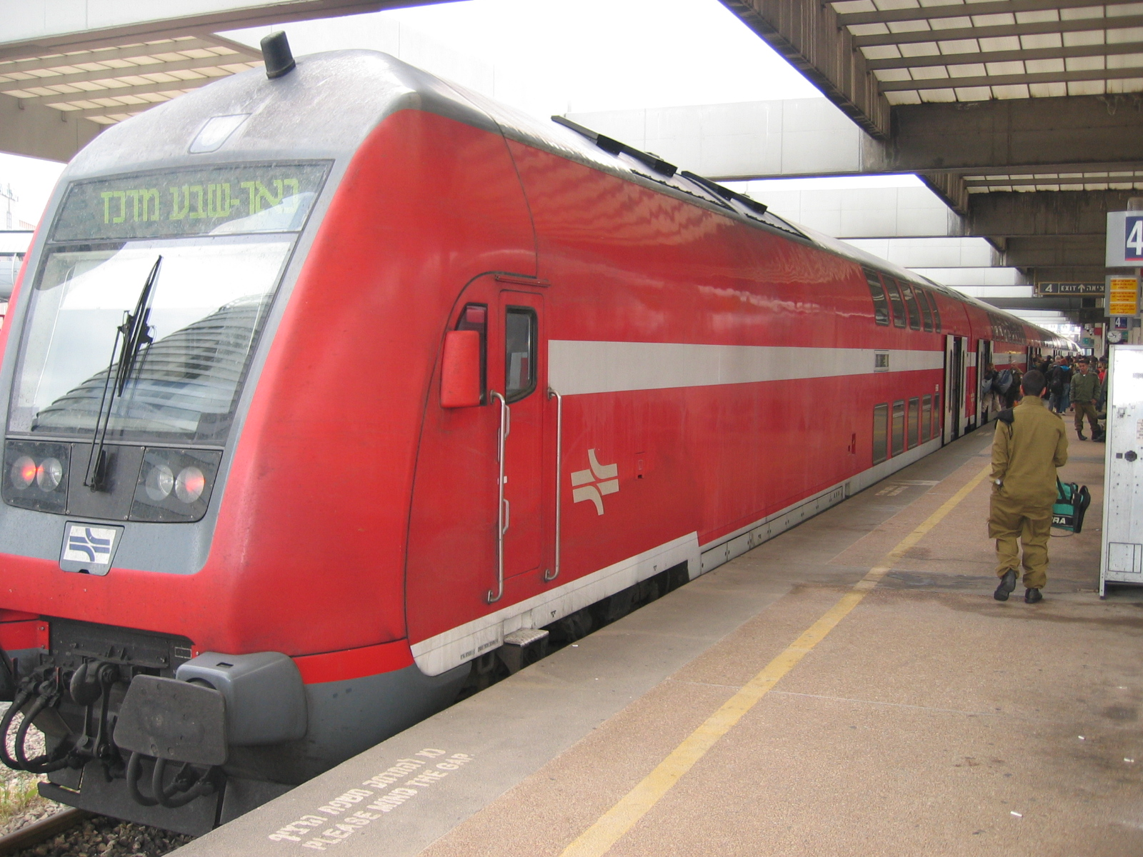 Bi-level coach train of Israel Railways at Tel Aviv's main station